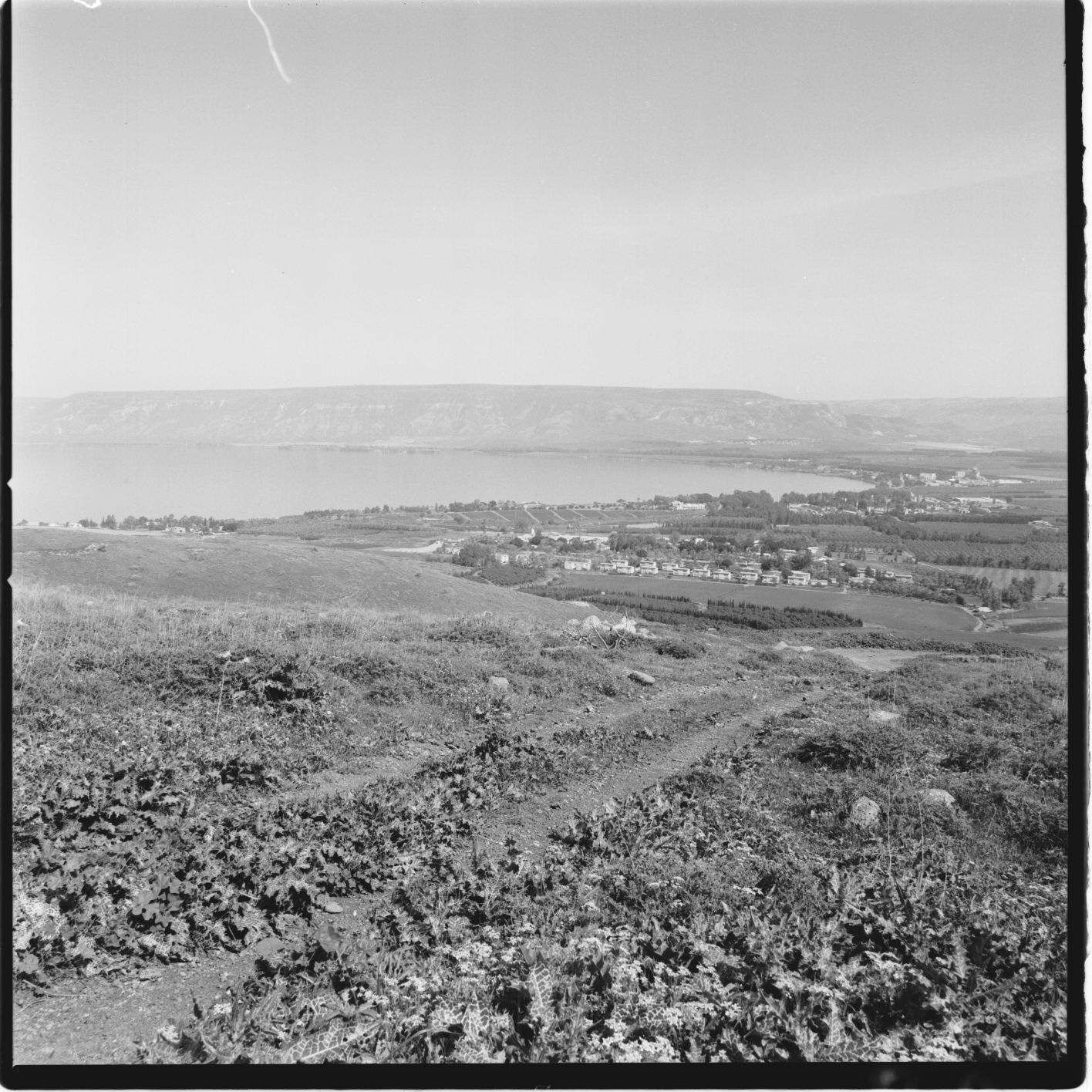 Moshava Kinneret during the British Mandate (1920-1947)